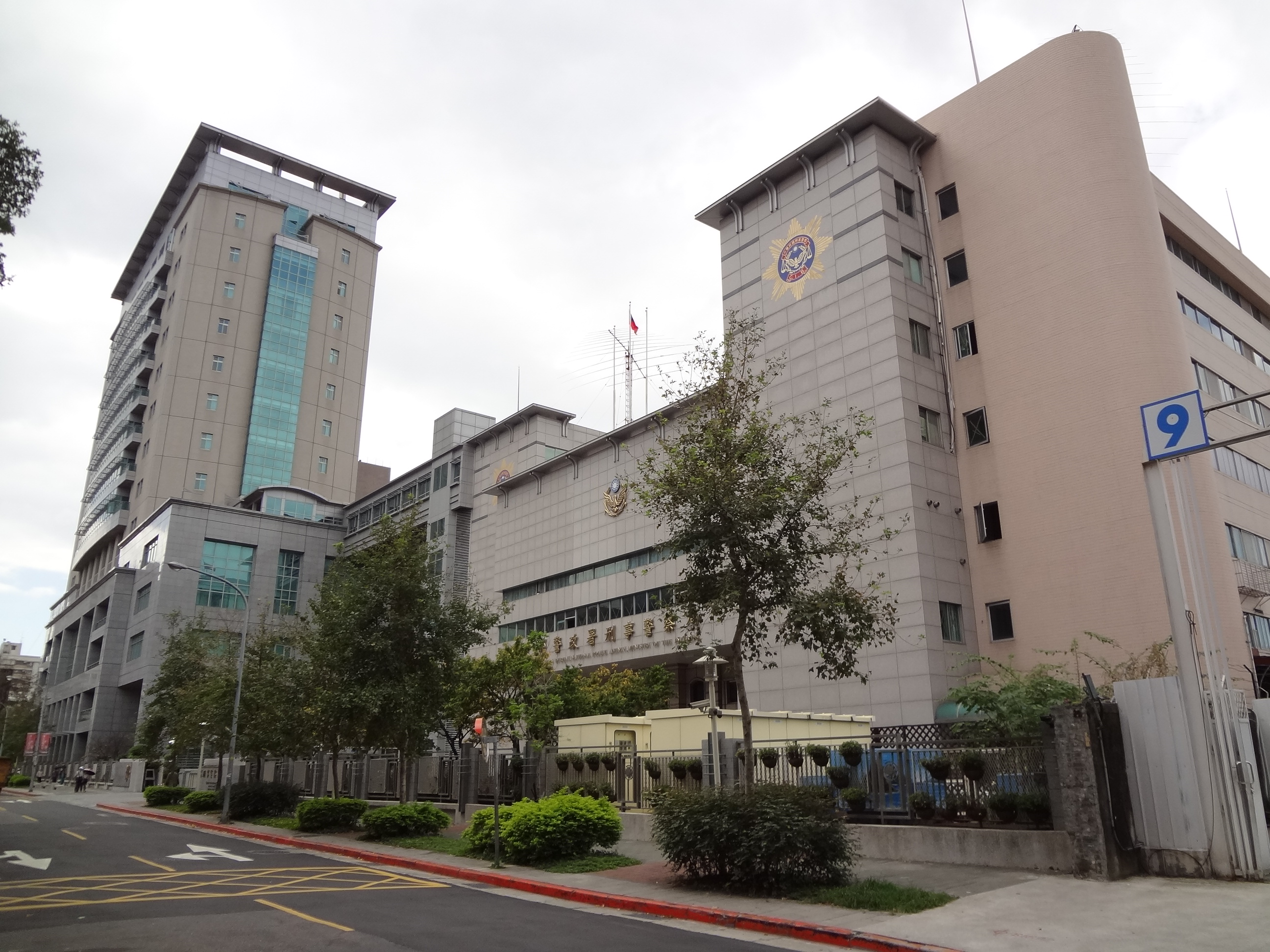 Criminal Investigation Bureau, National Police Agency, Ministry of the Interior, Republic of China.